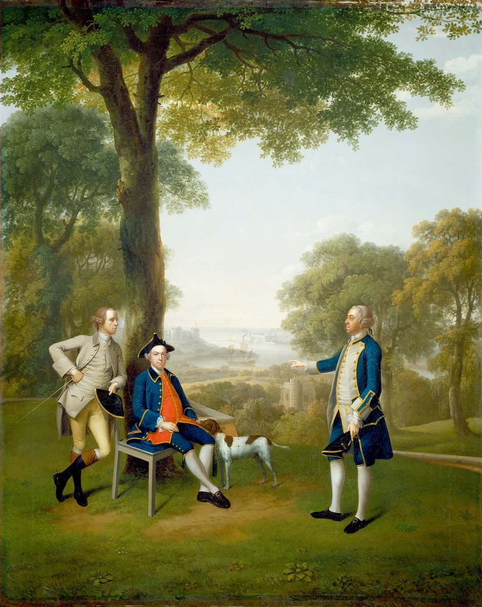 Arthur Holdsworth conversing with Thomas Taylor and Captain Stancombe by the River Dart